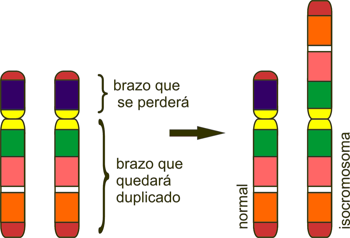 isochromosome